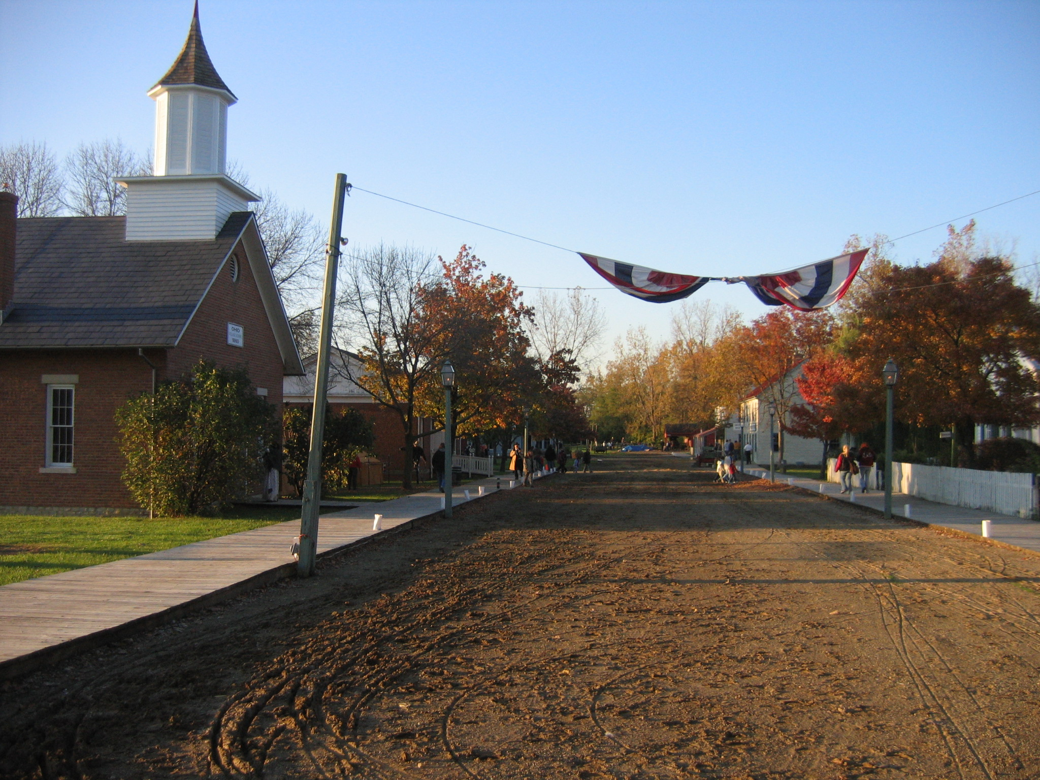 Main Street at Ohio Village, a living history museum in Columbus, Ohio